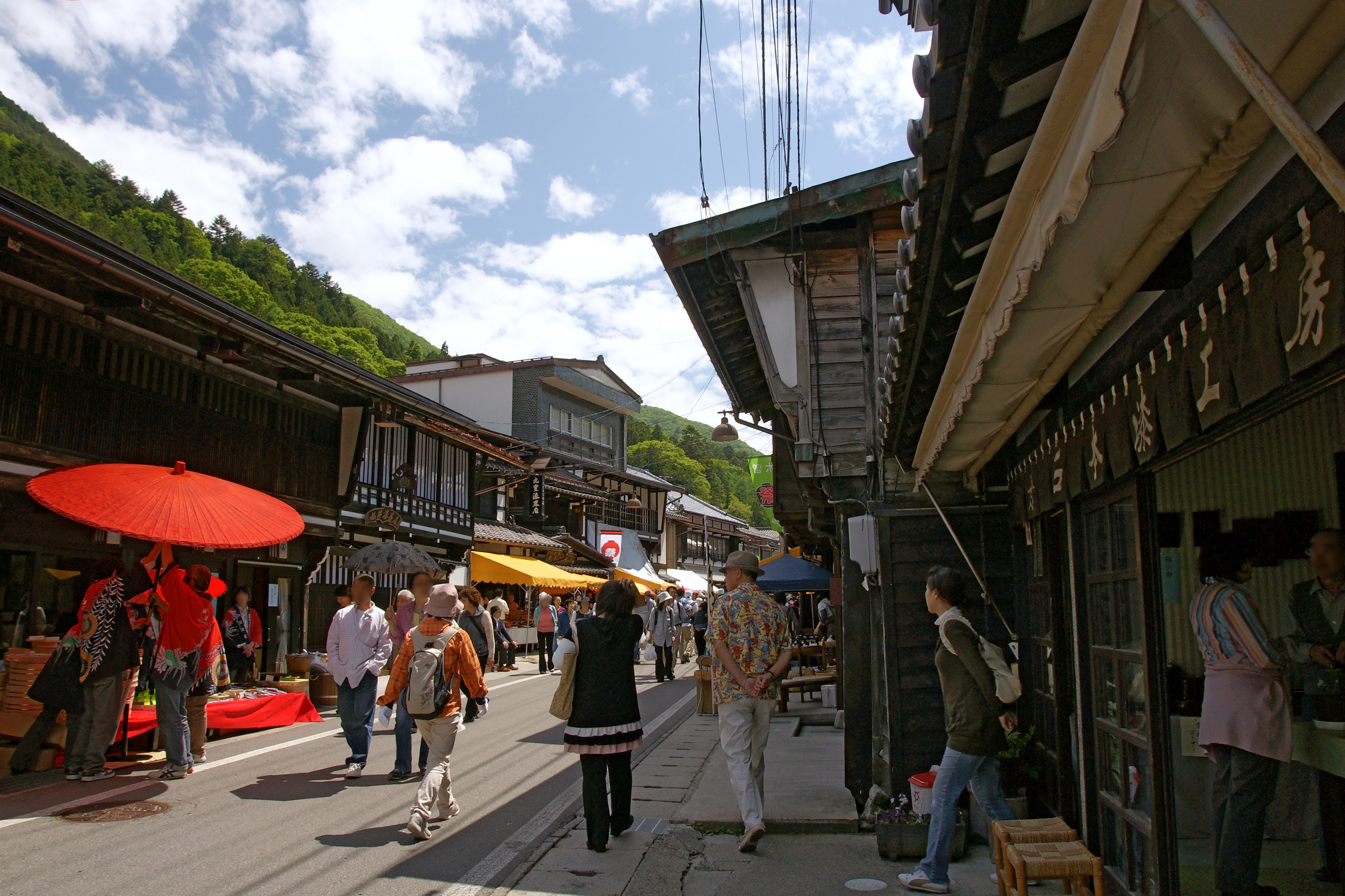 Kiso-Hirasawa, Shiojiri, Nagano prefecture, Japan